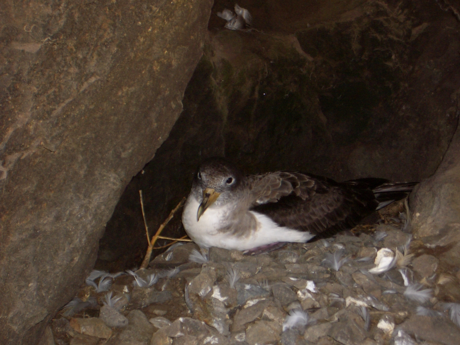 Cory's Shearwater (Calonectris borealis) on Selvagem Pequena, one of the Selvagen Islands of Portugal.